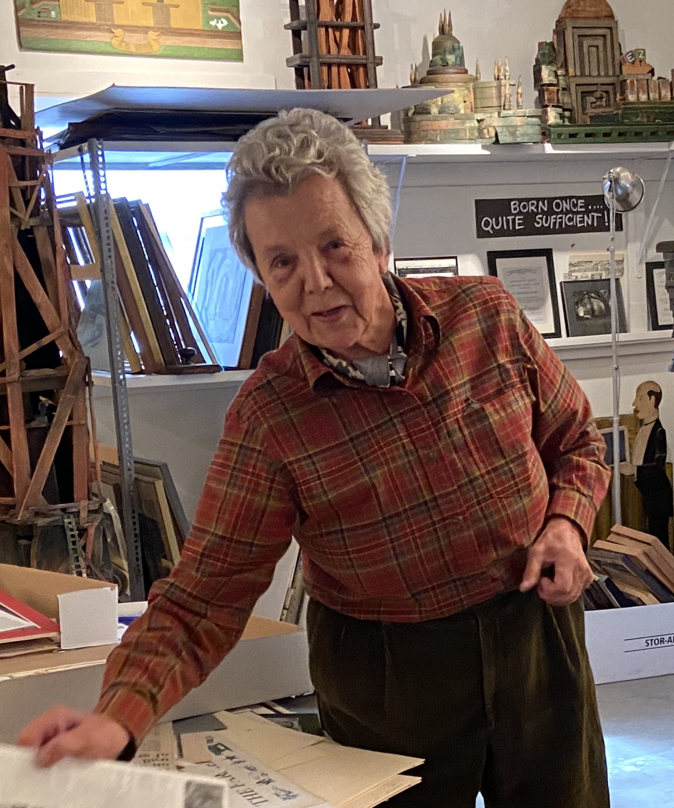 Victoria Romanoff in her studio (March 2020)